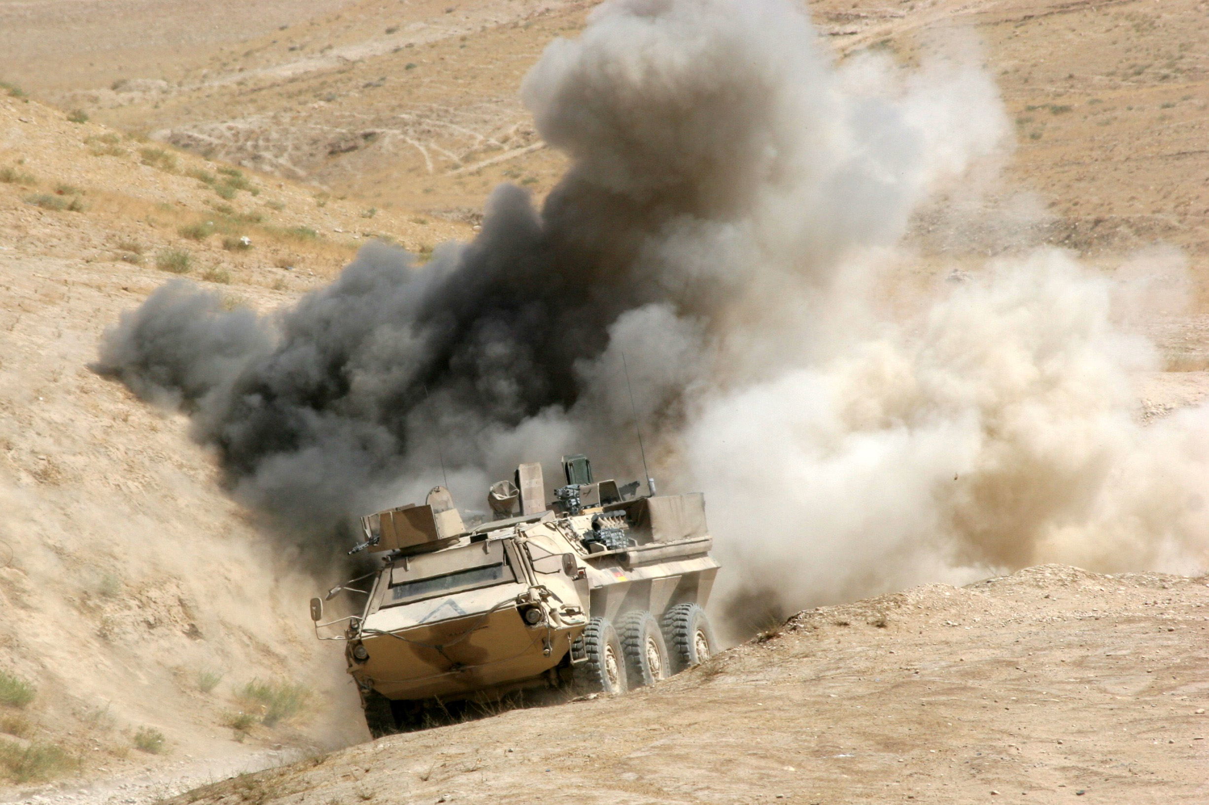 German forces conduct IED training near Camp Marmal outside of Mazar-e-Sharif, Afghanistan November 2009. Germany is part of the 42-nation military coalition assisting the government of Afghanistan in the establishment and maintenance of a safe and secure environment, thereby facilitating the nation's reconstruction and stability.